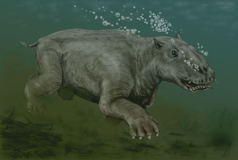 Paleoparadoxia tabatai, a desmostylian from the Early Miocene of Japan and North America, pencil drawing, digital coloring.